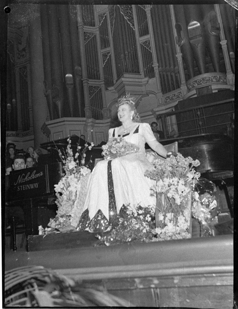 Note: Wagnerian soprano Marjorie Lawrence alternated the roles of Brunnhilde and Sieglinde with Kirsten Flagstad at the Metropolitan Opera from 1936-1941. Flagstad was the most celebrated Wagnerian soprano but Lawrence's young and passionate voice was greatly admired. On 1st January 1936, Lawrence astounded the crew and audience by actually riding the warhorse into the "flames" at the climax of Gotterdammerung, the final opera in Wagner's cycle, despite instruction she was not to do so. Wagner had intended this stage business but Lawrence was probably the first to attempt it, as she had ridden since childhood in the Australian bush. Coincidentally, this performance was recorded and is the only complete recording of Gotterdammerung with Lauritz Melchior, the most famous Siegfried ever. In 1941 Lawrence contracted polio ending her first career. Her second career was achieved through seated concert performances or a few roles like Princess Amneris in Aida where it was feasible to remain seated. The many recordings left of her show she was one of the great Wagnerian singers. Format: Negative From the collections of the Mitchell Library, State Library of New South Wales Information about photographic collections of the State Library of New South Wales: .au/search/SimpleSearch.aspx Persistent url: .au/item/itemDetailPaged.aspx?itemID=27051